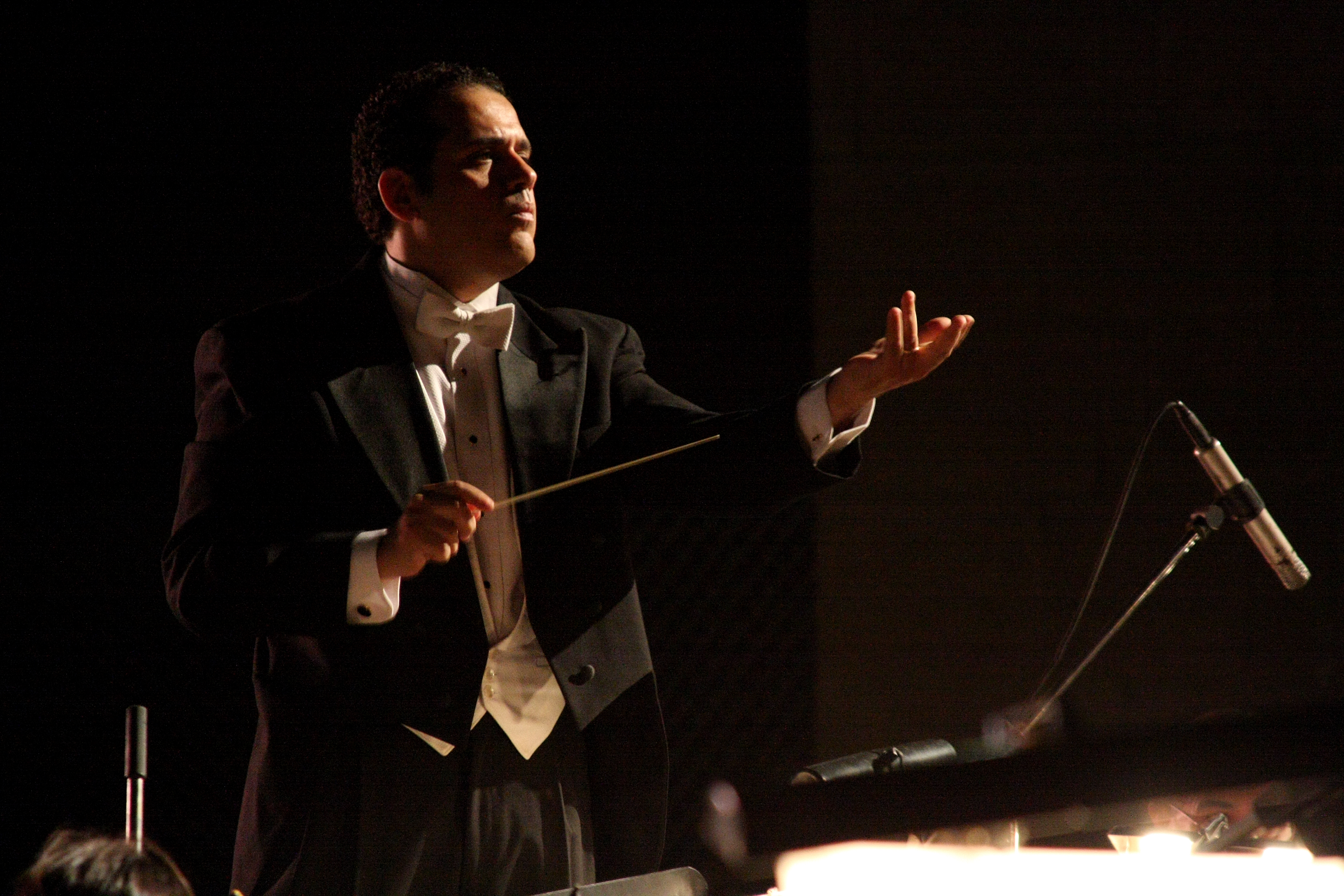 This photo was taken by Miriam Benyamein for maestro Nayer Nagui